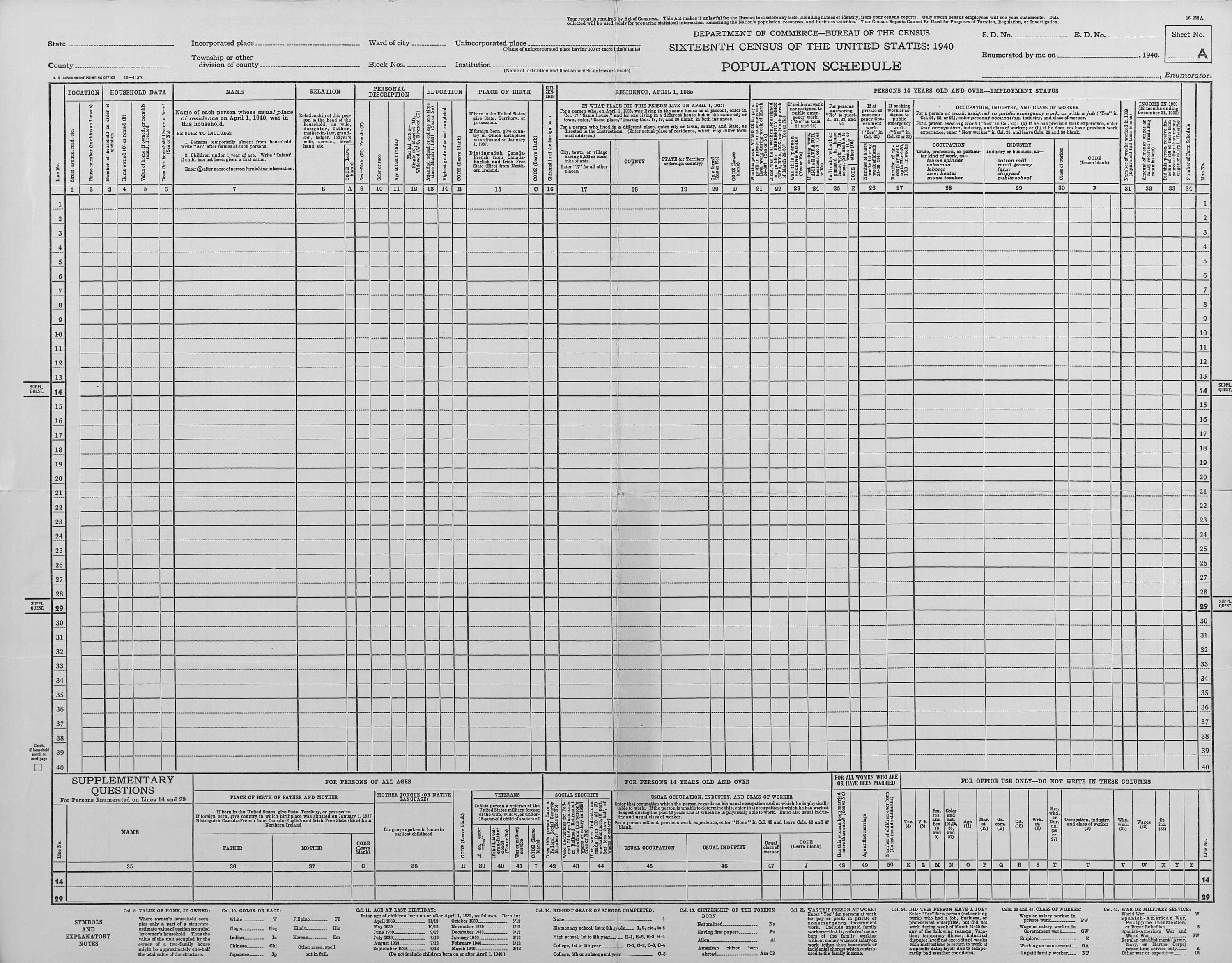 A blank 1940 Census Population Schedule